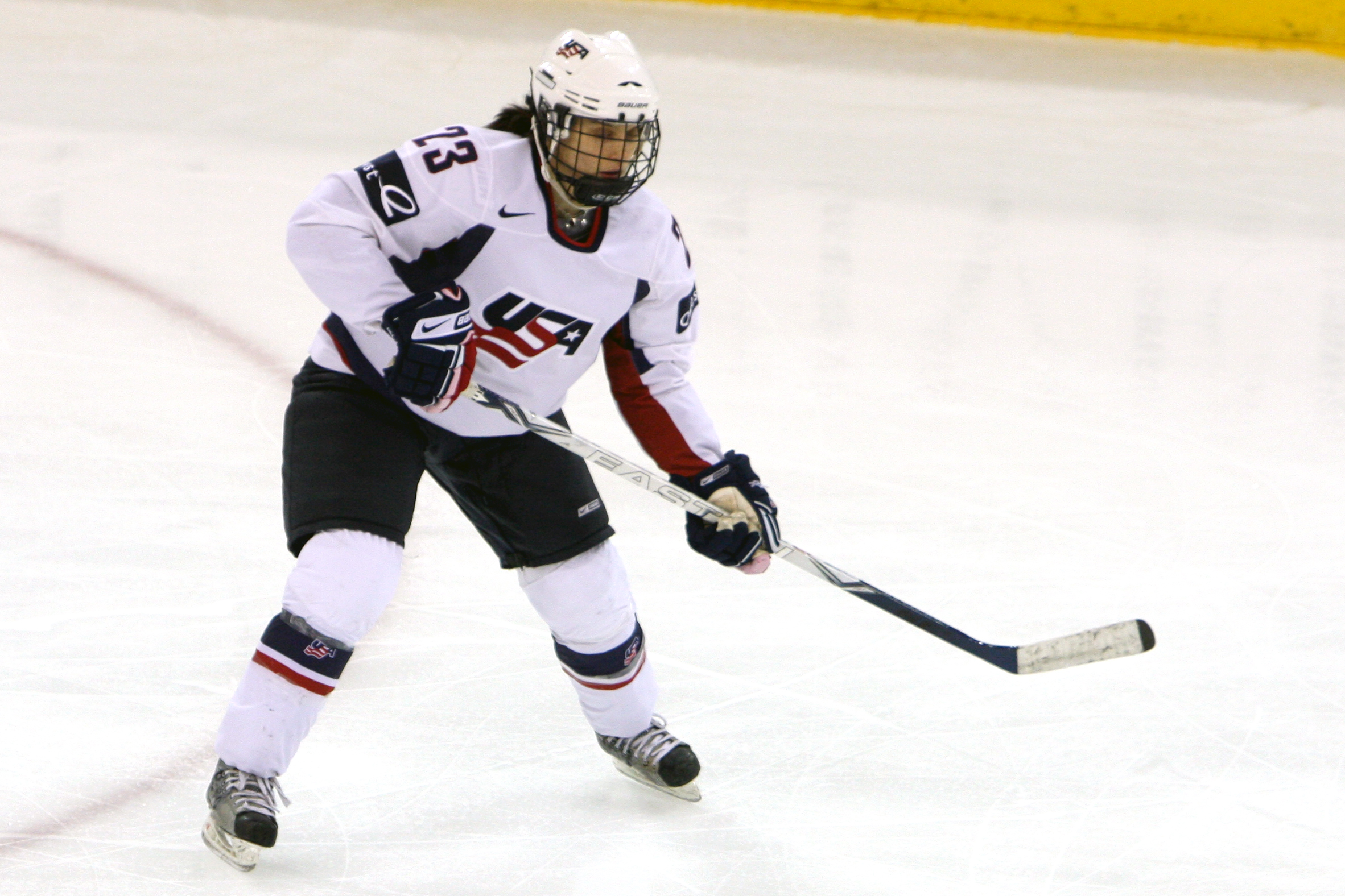 United States forward Kerry Weiland in a game against the ECAC All-Stars on January 3, 2010.